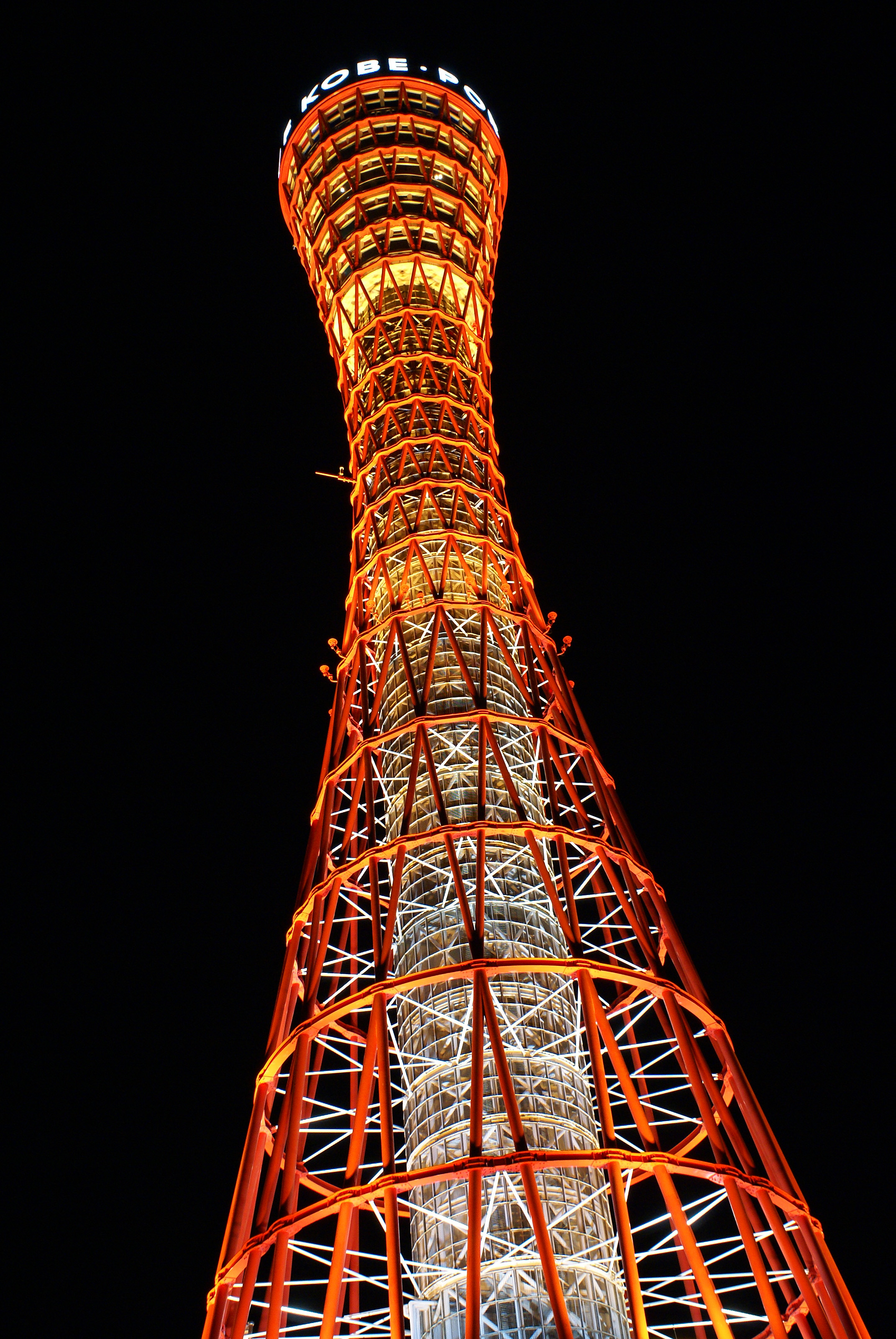 Kobe Port Tower in the Kobe harbor ( Kobe, Hyogo prefecture, Japan)